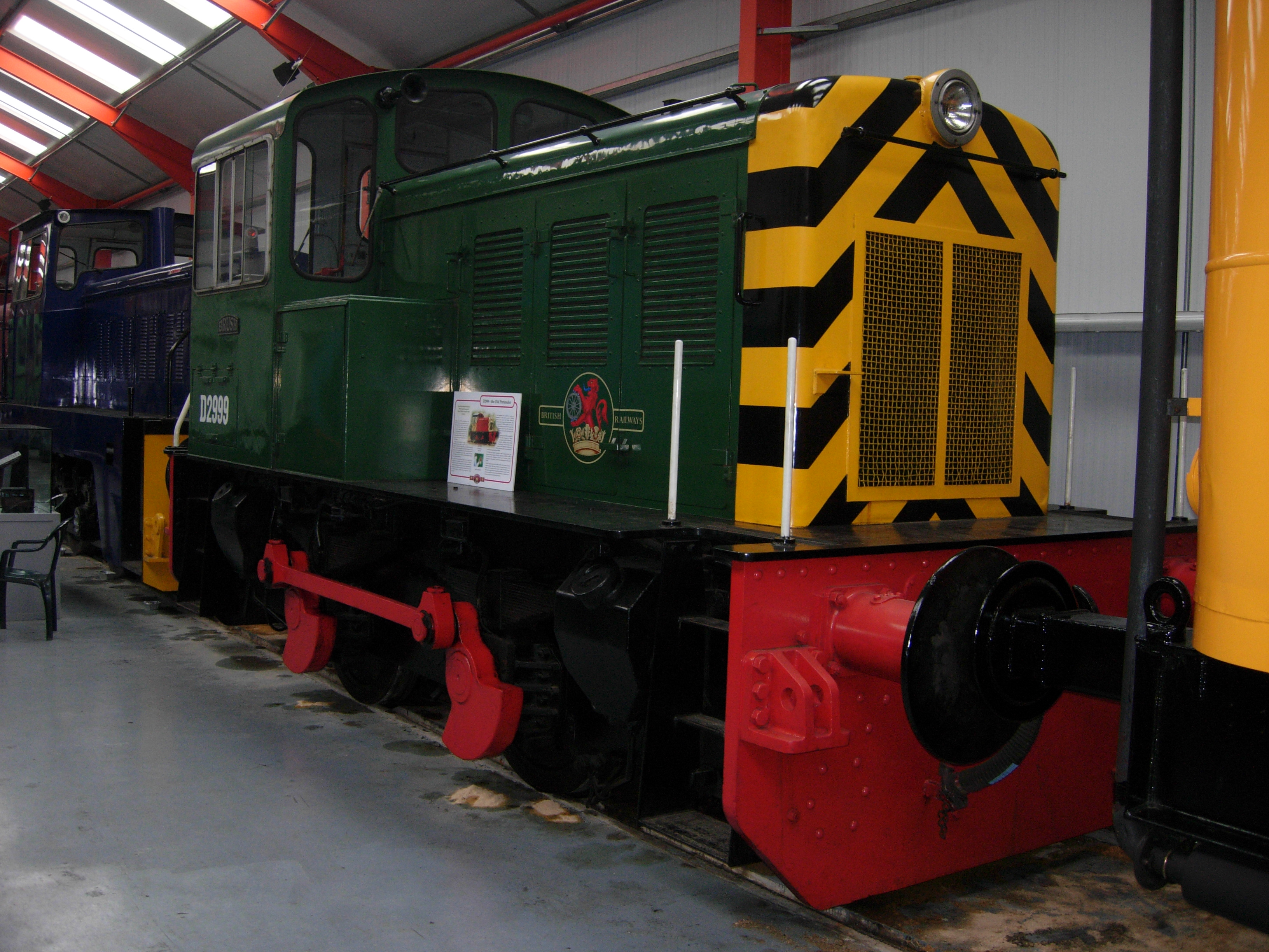 Built 1958 by Brush, Beyer Peacock.